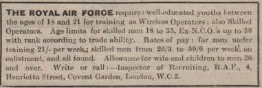 Page 500 of the 21 December 1923 edition of The Radio Times, showing various advertisements in the lower half.